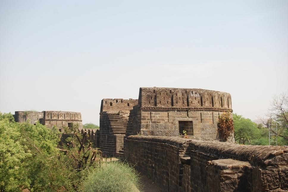 Ahmednagar fort bastion